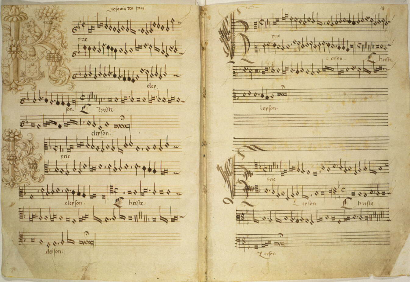 Early 16th century manuscript of Missa de Beata Virgine by Josquin des Prez; 2D representation